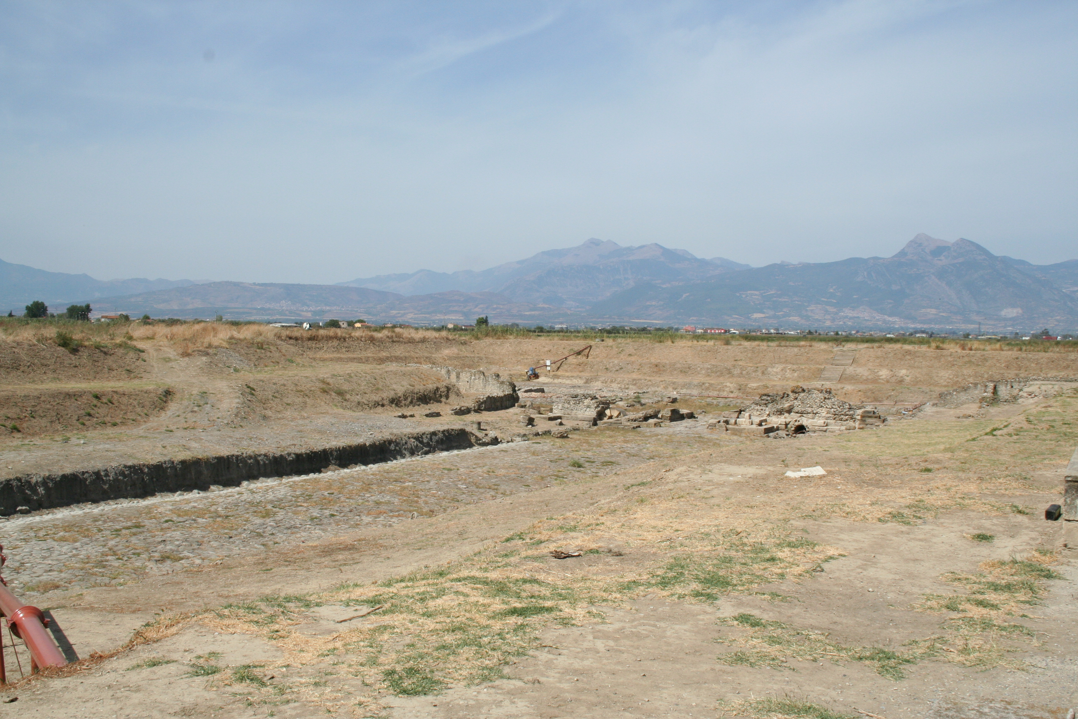 Overview of excavated ruins in the archeological park of Sybaris. The later cities of Thurii and Copia were partially superimposed over the older settlement. The author and uploader have not been able to identify to which settlement these remains belong.